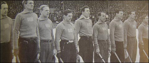 Lineup before the 23 February 1947 international bandy game between between Sweden and Finland at Stockholms stadion, from the left: Thure Andersson, Pontus Widén, Nicke Bergström, Leif Lindqvist, Einar Tätting, Hilding Gustafsson, Jörgen Wasberg, Gustav Danielsson och Herman Jonasson.